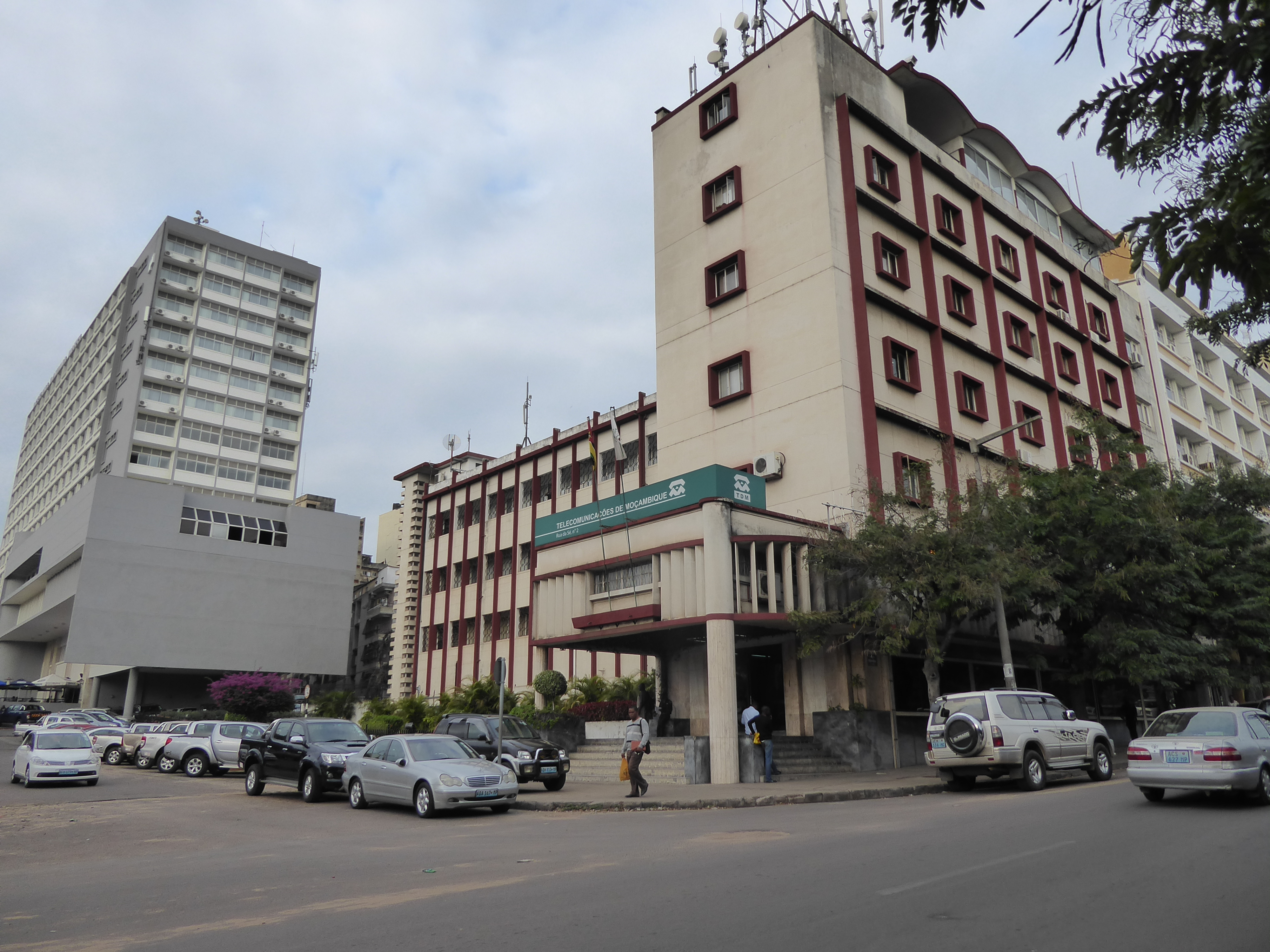 "Telecomunications of Mozambique" seat in Rua da Sé 2, Maputo, Mozambique